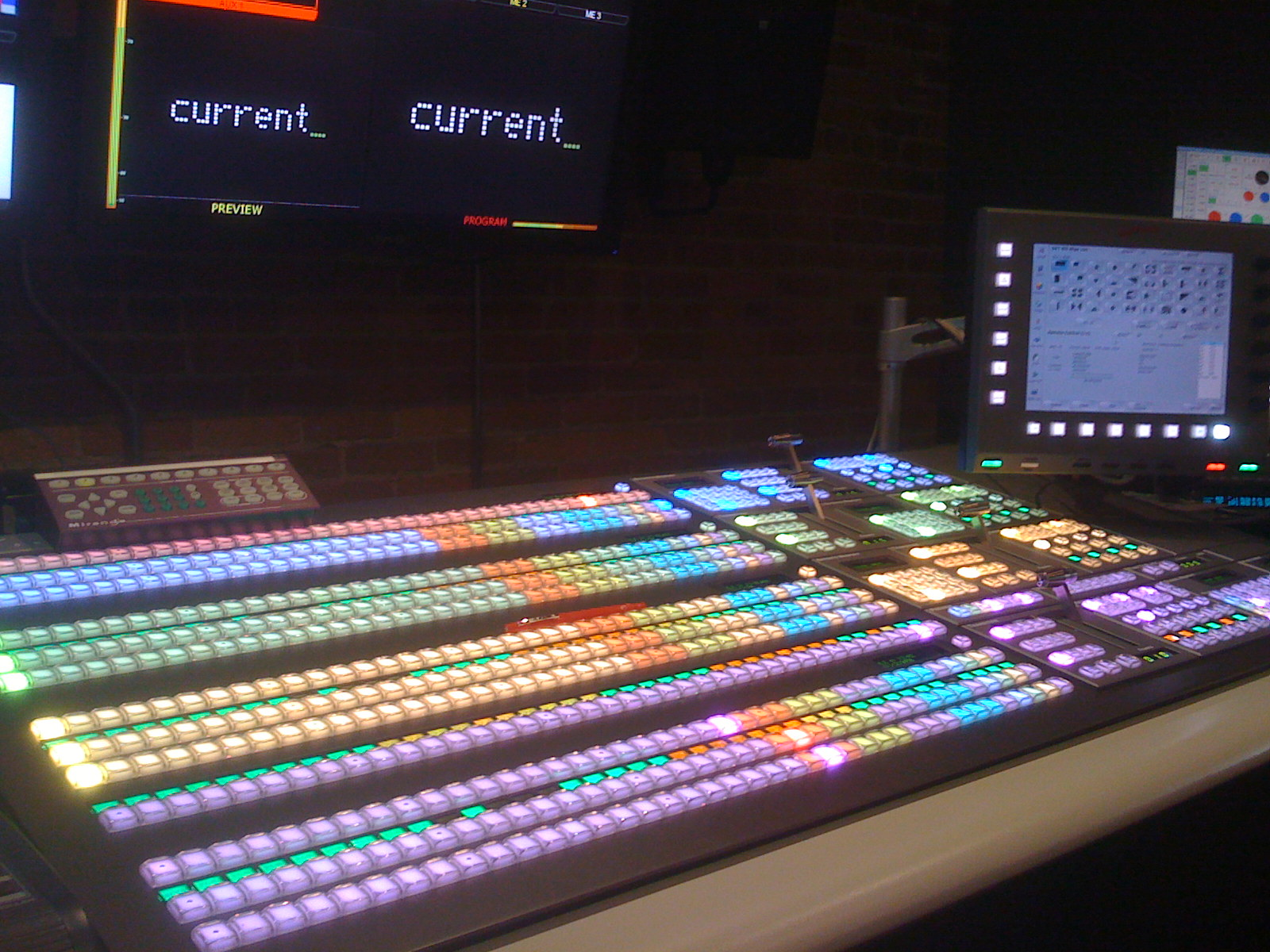 Update picture of the Vision Production Switcher at Current TV in San Francisco.